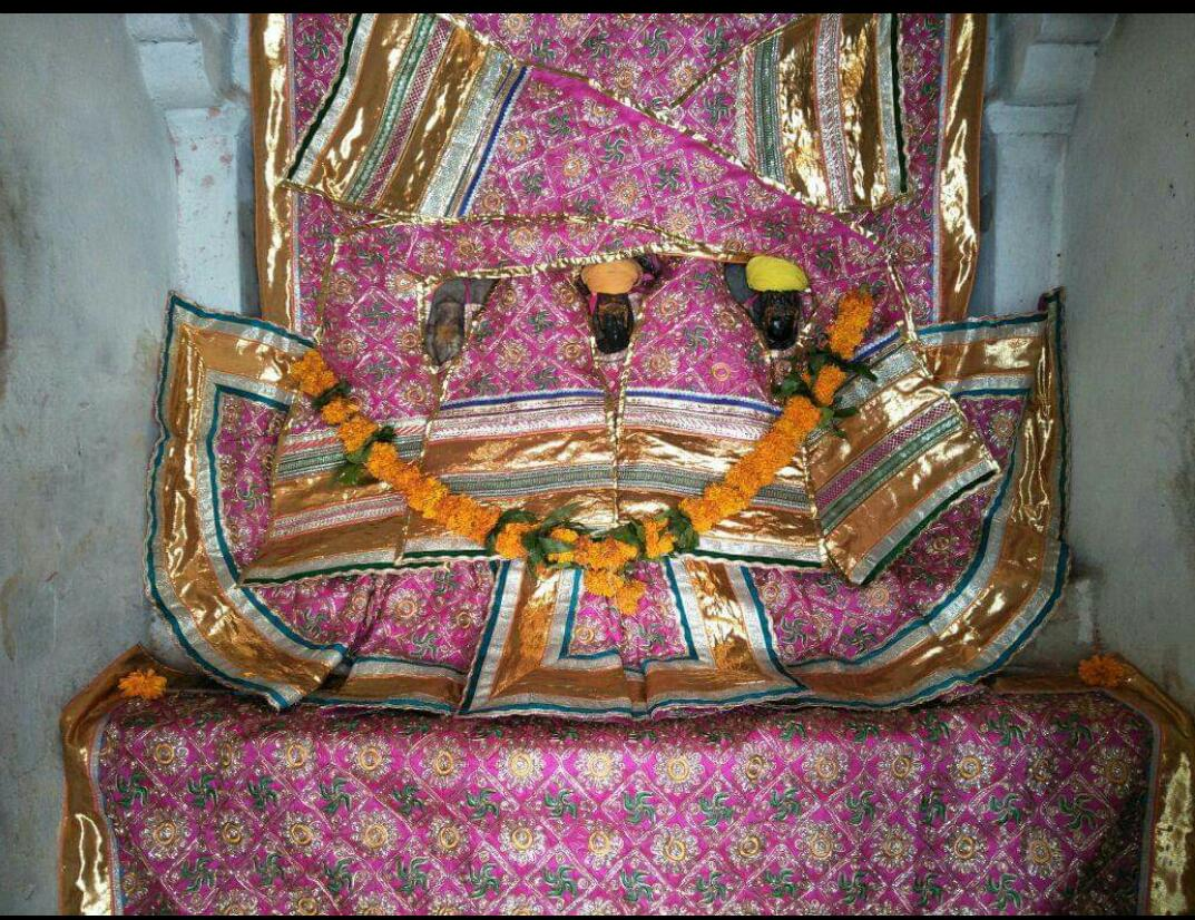 श्री रूपनारायण जी मंदिर